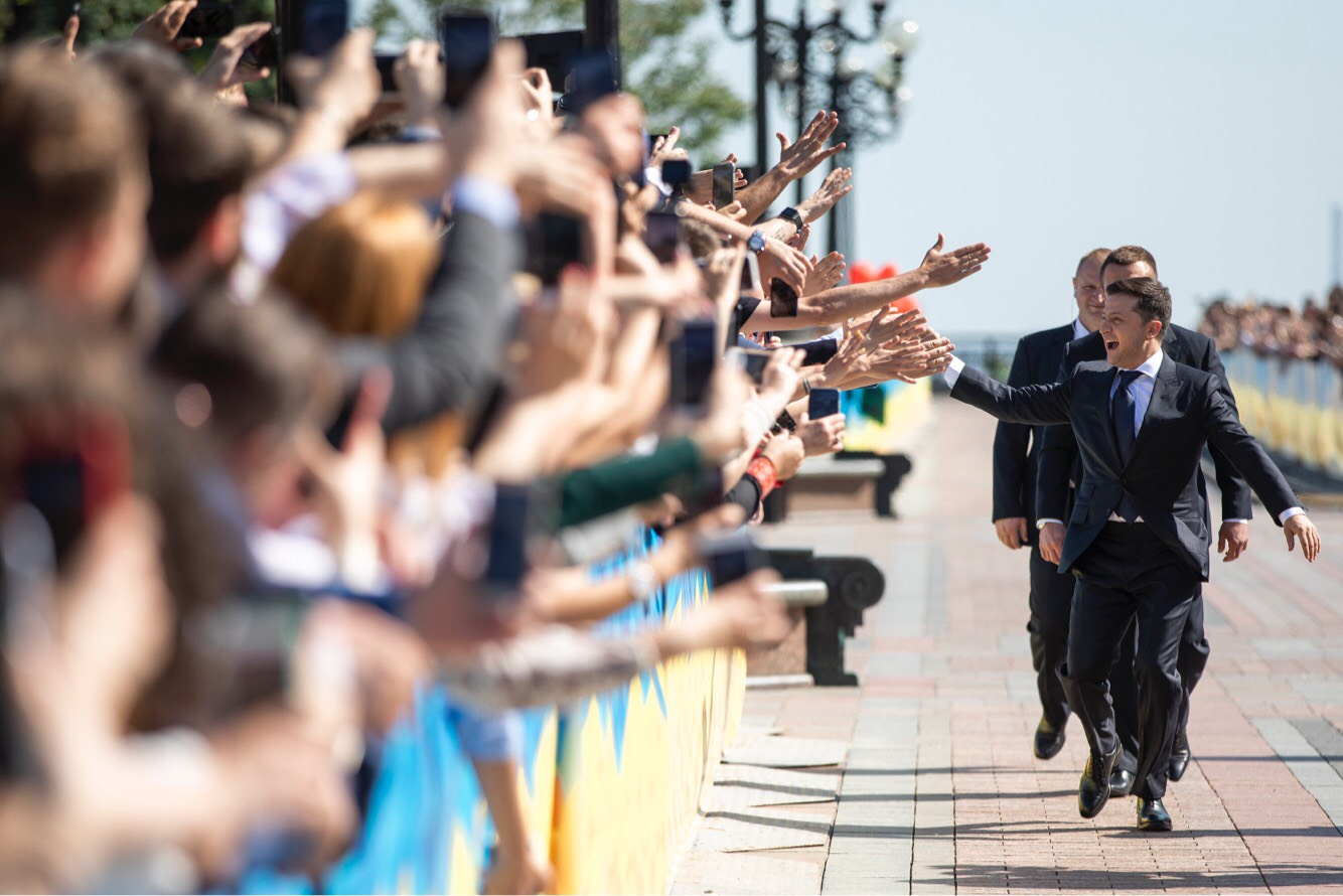 Volodymyr Zelensky presidential inauguration, 20th May 2019